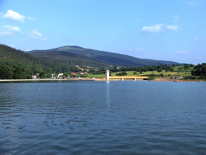 Artificial lake in Stara Morawa near by Stronie Śląskie (Lower Silesia, Poland)